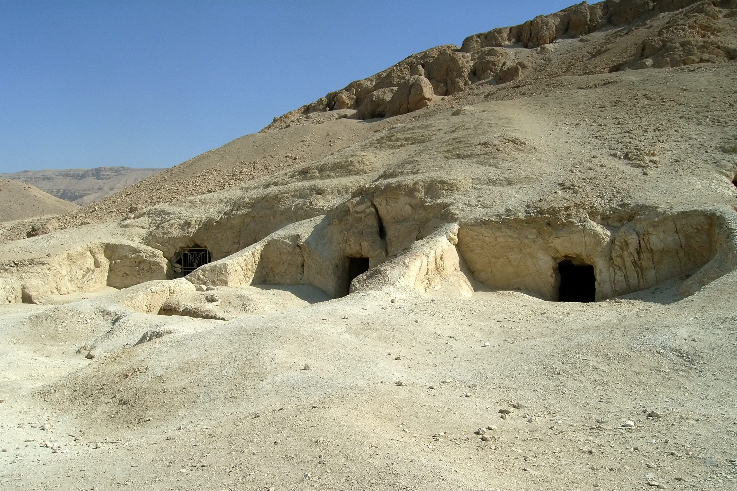 Ancient Egyptian tombs of the el-Mo'alla limestone rocks